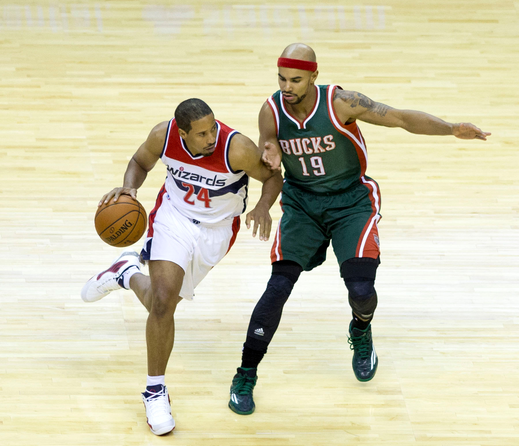 Bucks at Wizards 11/01/14